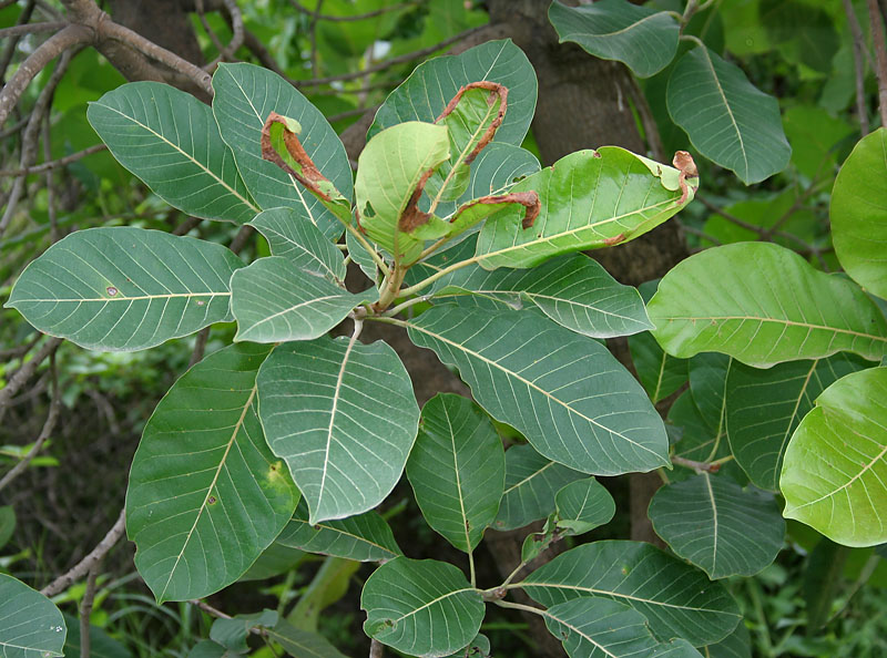 Honey tree, Butter tree, Madhuca, moha, mohua, madhuca, illuppai, kuligam, madurgam, mavagam, nattiluppai, tittinam, mahwa, mahua, mowa, moa or mowrah Madhuca longifolia var. latifolia in Hyderabad , India.